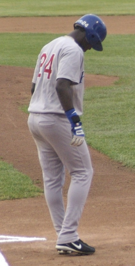 Jesus Valdez of the Peoria Cubs steps into the batter's box during a game against the Southwest Michigan Devil Rays in 2006.